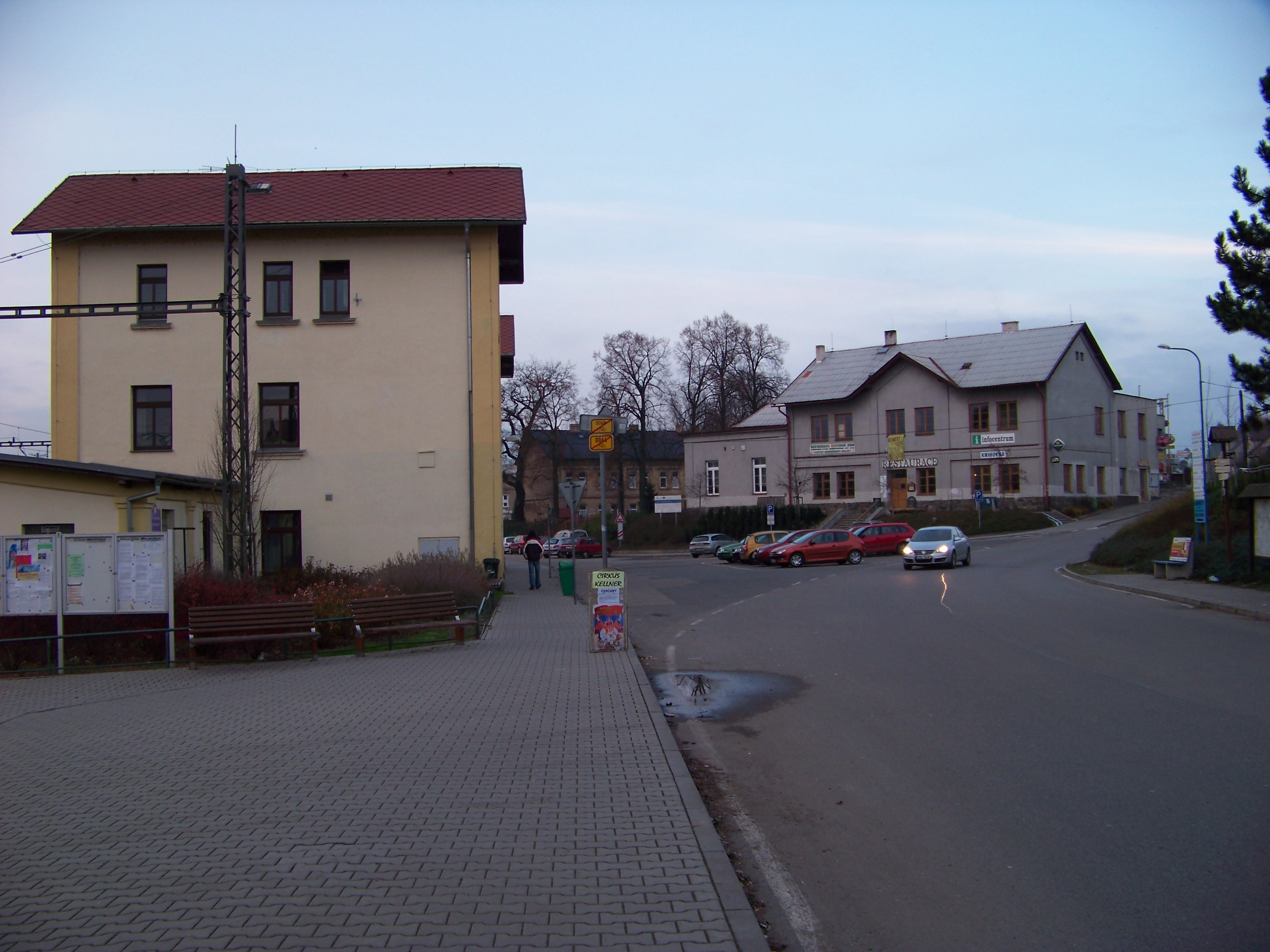 Čerčany, Benešov District, Central Bohemian Region, Czech Republic. Nádražní 26, train station Čerčany, Sokolská 28.